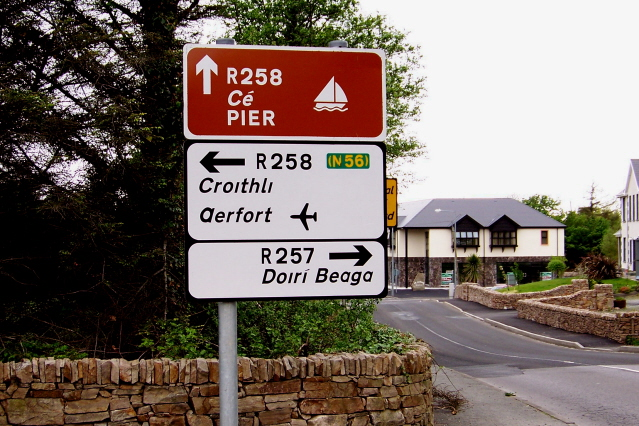 Bunbeg - R258 As seen travelling a bit NW on R258. We made a right turn at the intersection, with R257 just ahead, to drive to Derrybeg (Doiri Beaga in Gaelic) via R257.